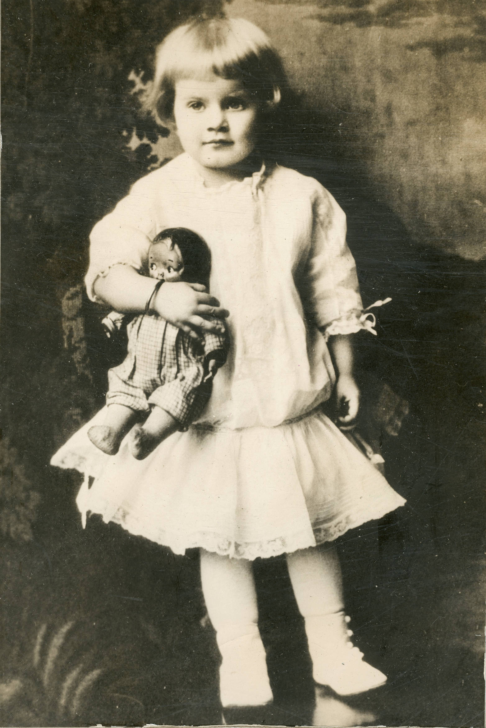 Jean Harlow, film actress (taken at age 3) Subjects: actresses